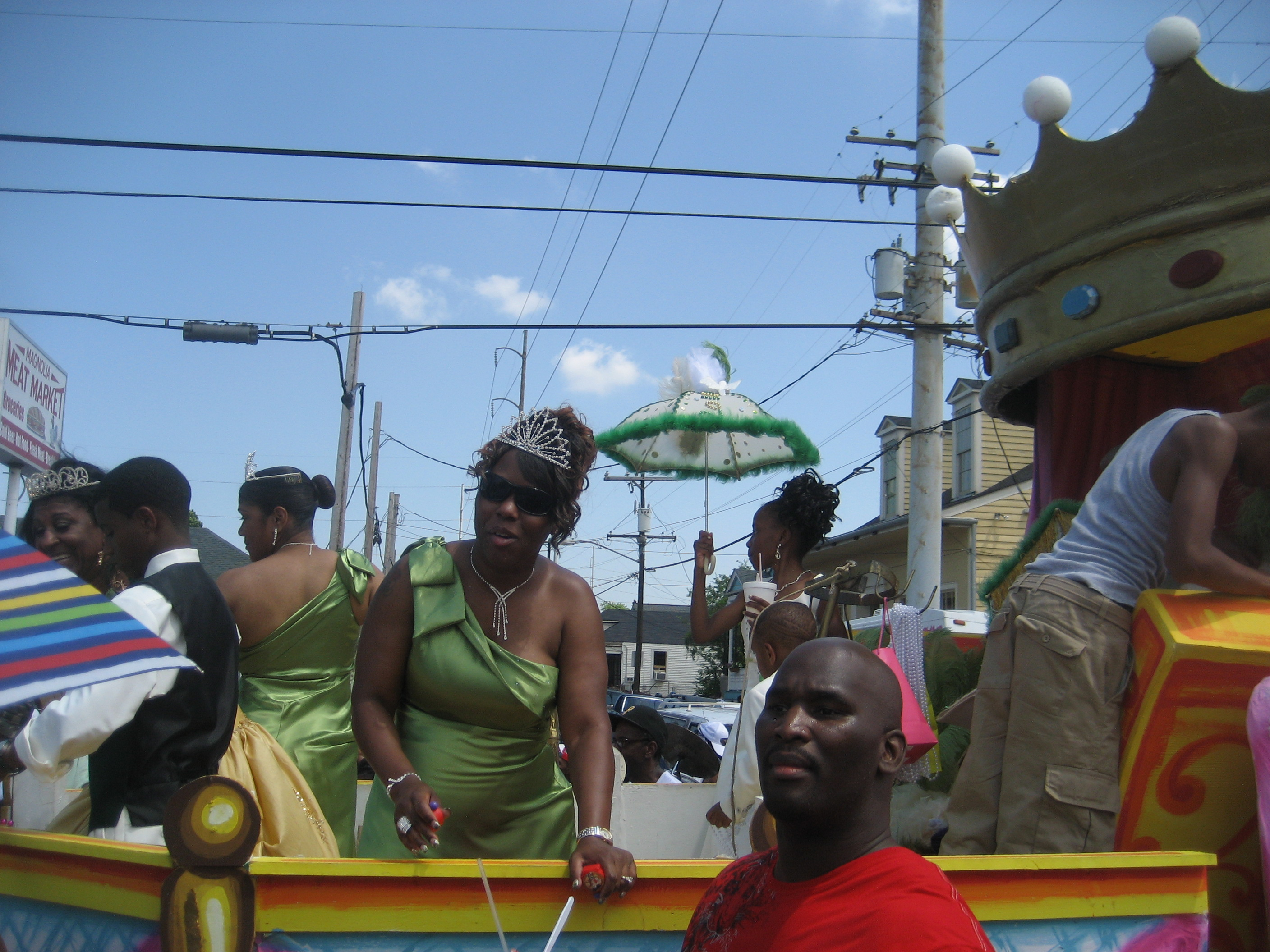 New Orleans: Zulu Social Aid & Pleasure Club 101 Anniversary Parade on Broad Avenue.